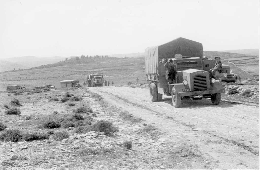 The Palmach, Settlements